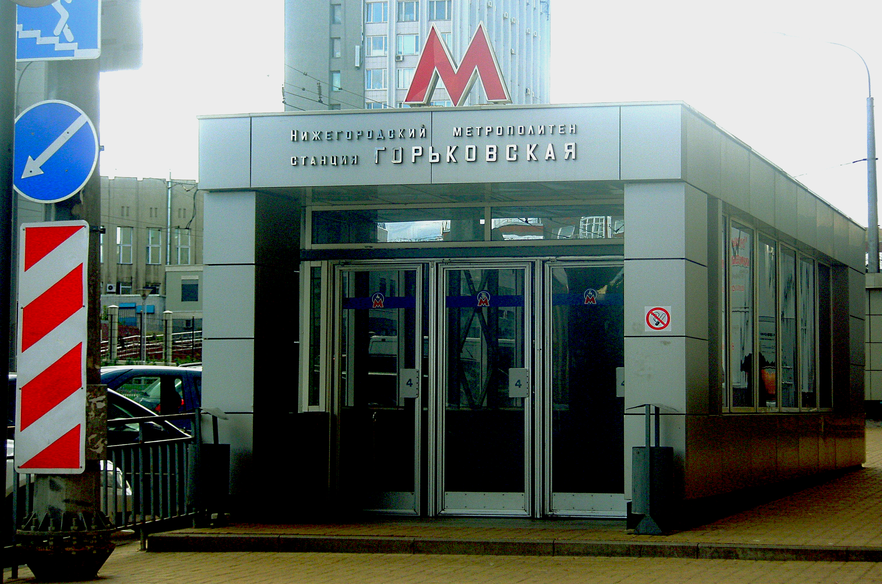 Entry of Gorkovskaya metro station in Nizhny Novgorod